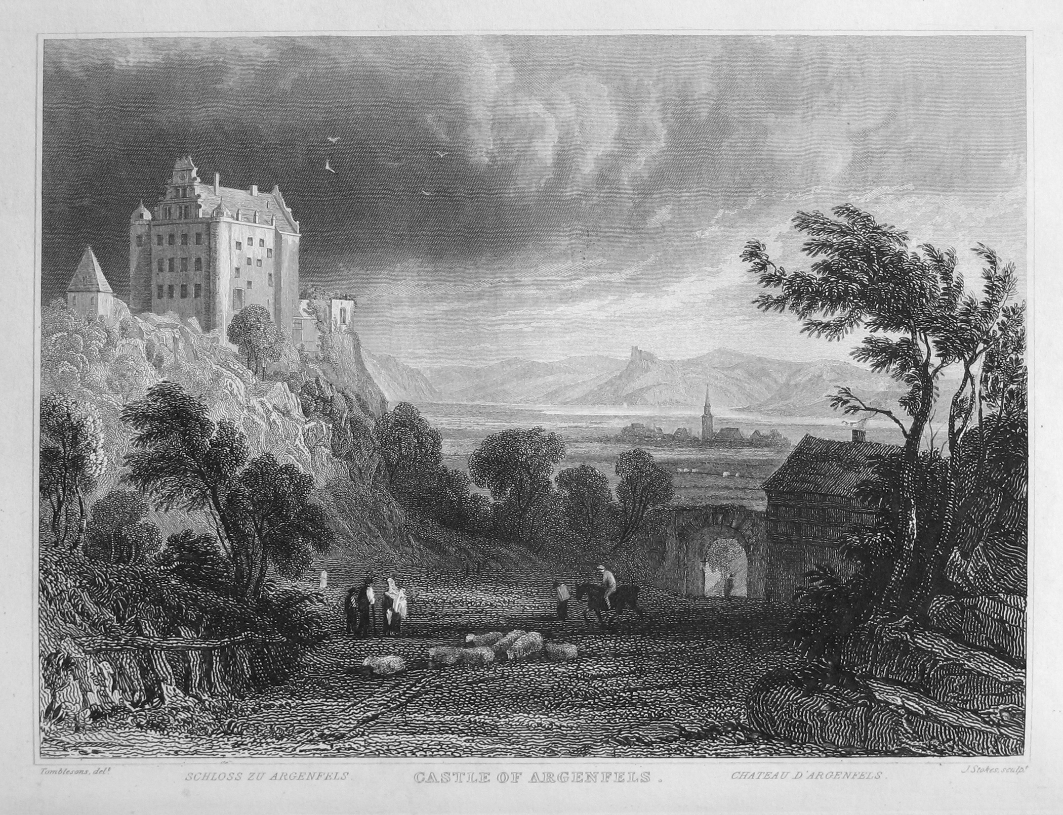 Steel engraving from "Views of the Rhine" by William Tombleson (around 1840): Castle of Argenfels